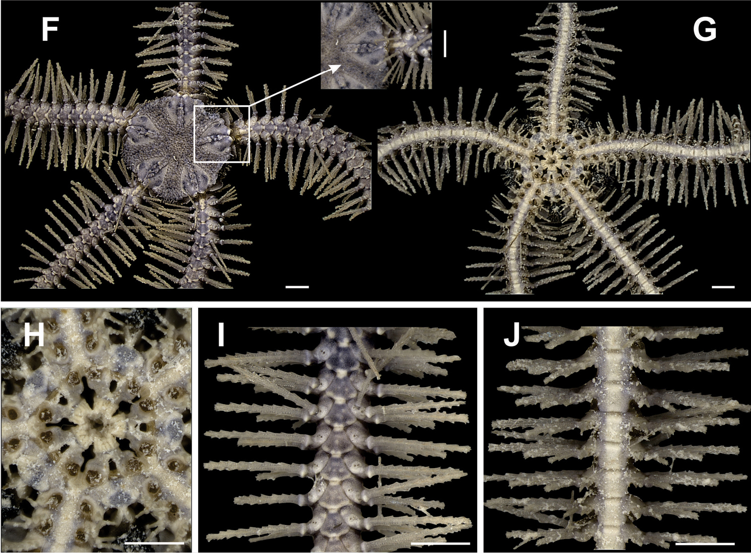 Ophiothrix (Ophiothrix) angulata. F dorsal view, in detail the radial shields G ventral view H jaw I dorsal view of the arms J ventral view of the arms. Scale bar = 1 mm.